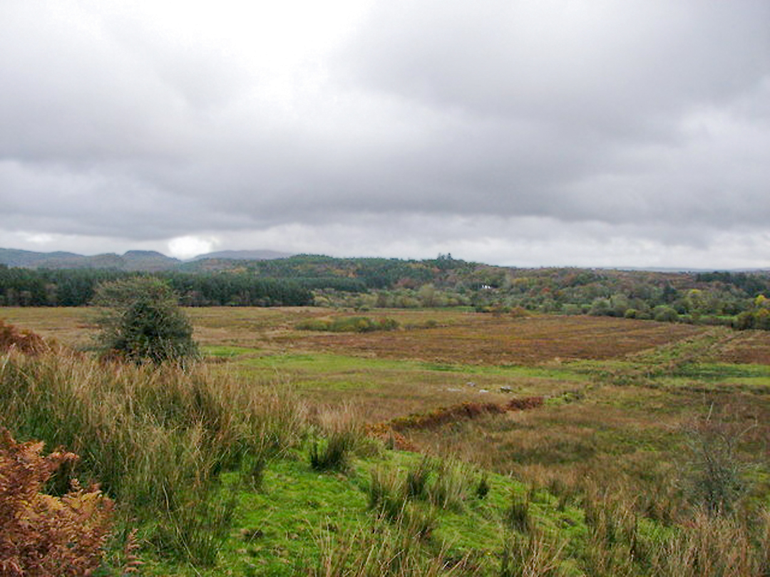 Bogland near Killerry wood Looking east towards the Bonet River valley.